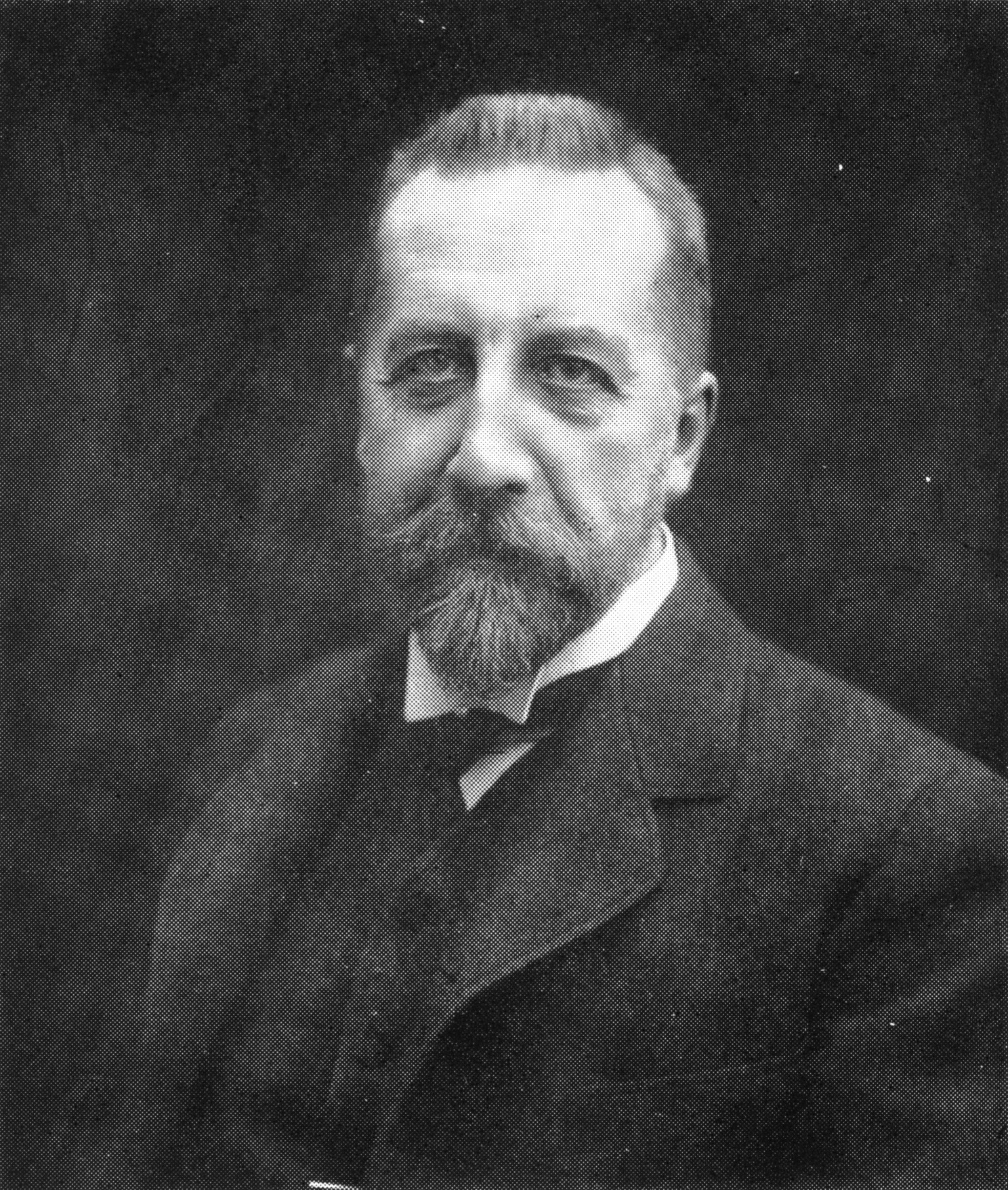 Christian Michelsen, Prime minister of Norway 1905-07.